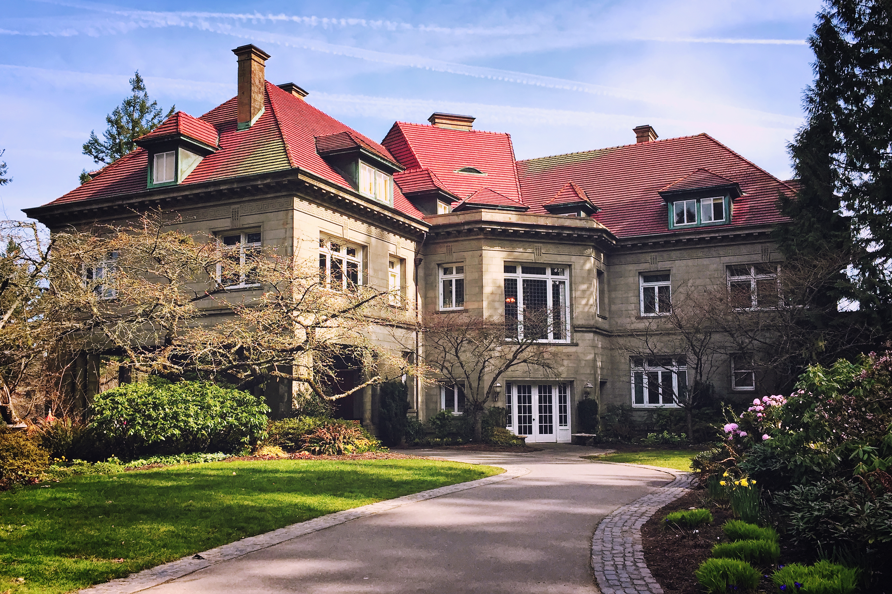 The Pittock Mansion